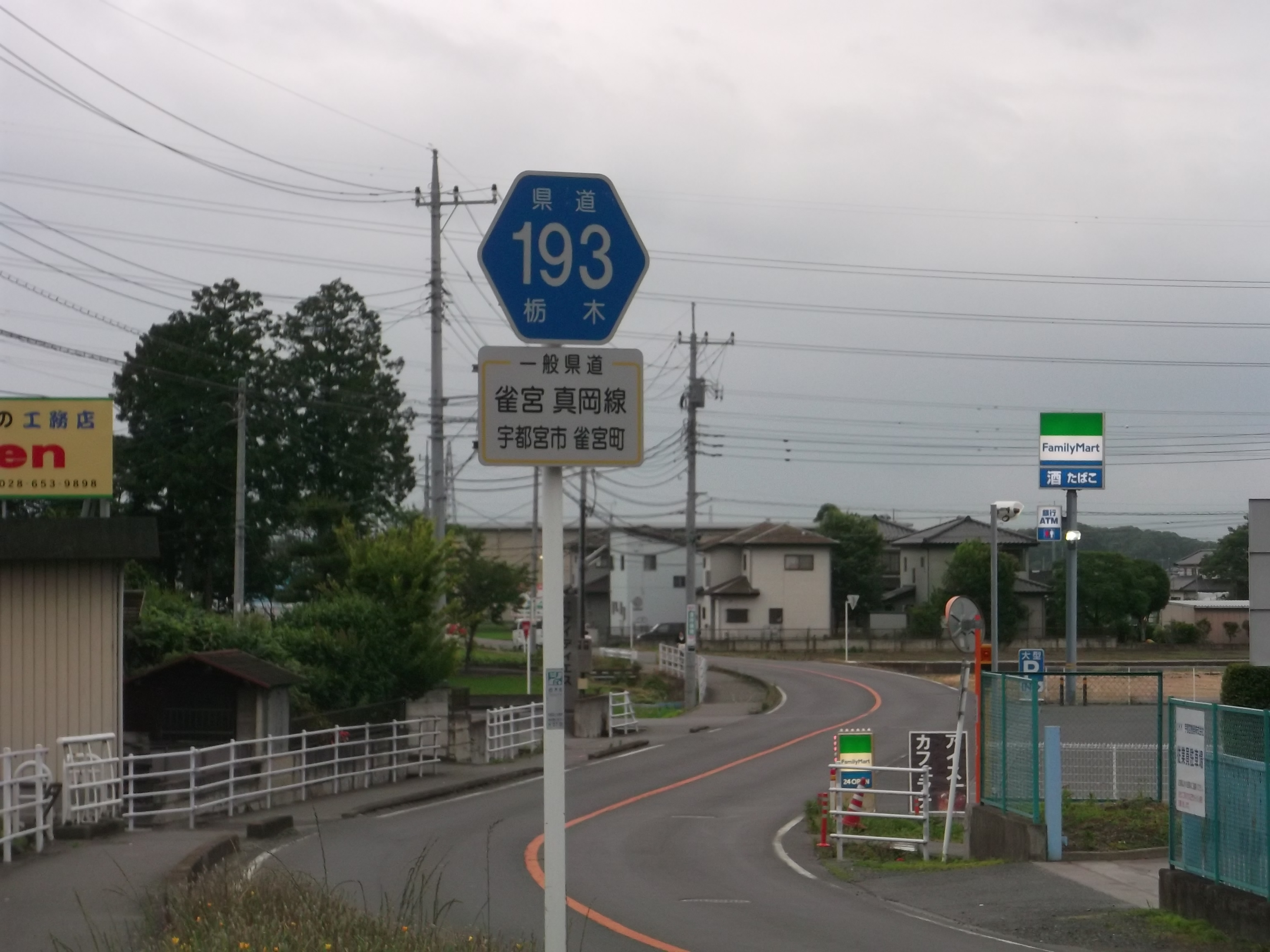 The Tochigi Prefectural Road Route 193 in Suzumenomiyacho, Utsunomiya City